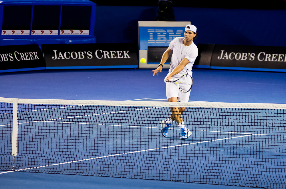 Experimenting with (and finding limitations of) budget Pentax 55-300mm f4-5.8 and K-5 for sports.